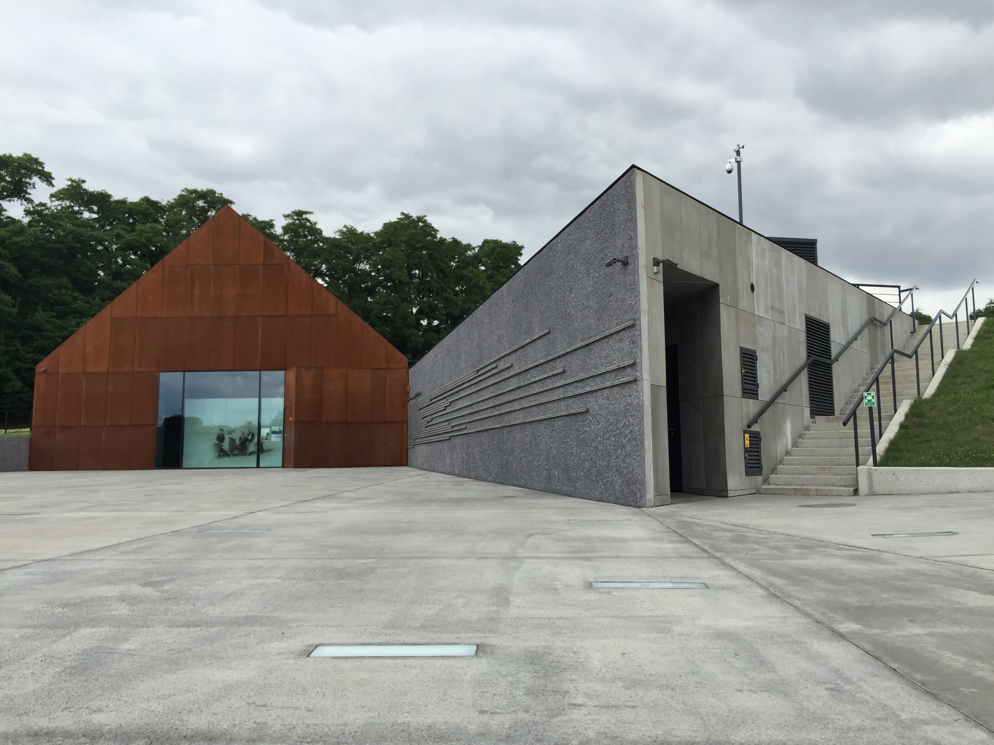 Castle Museum in Łańcut. Branch – The Ulma Family Museum of Poles Saving Jews in World War II